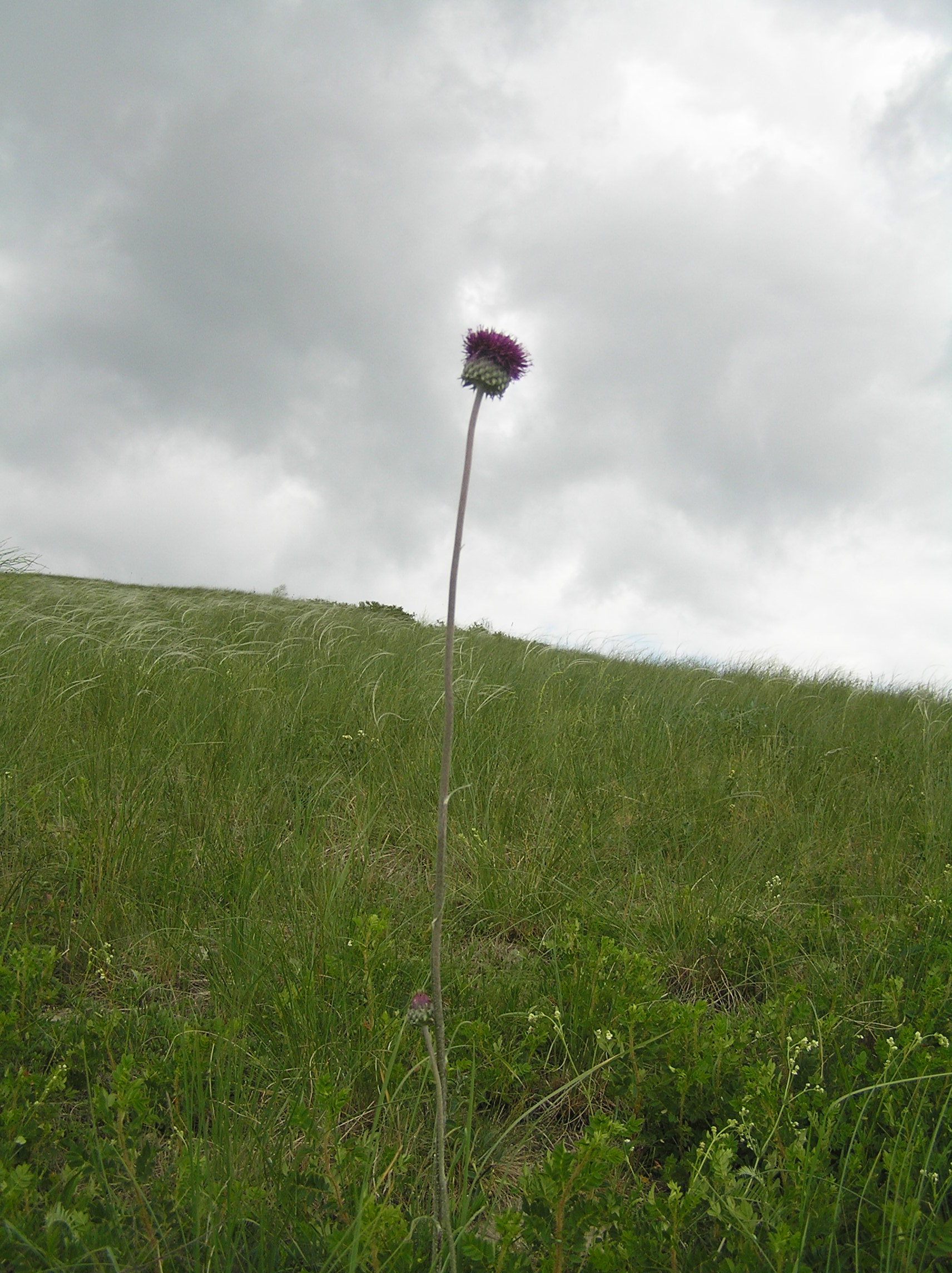 Jurinea mollis, Pouzdřany, Southern Moravia, Czech Republic